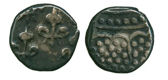 Silver Fanon minted in Pondichery under the French East Indian Company's autorities, with 3 fleur de lys . Weight : 1.41 g. Réf. : KM. 44.